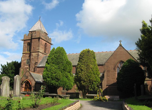 Photograph